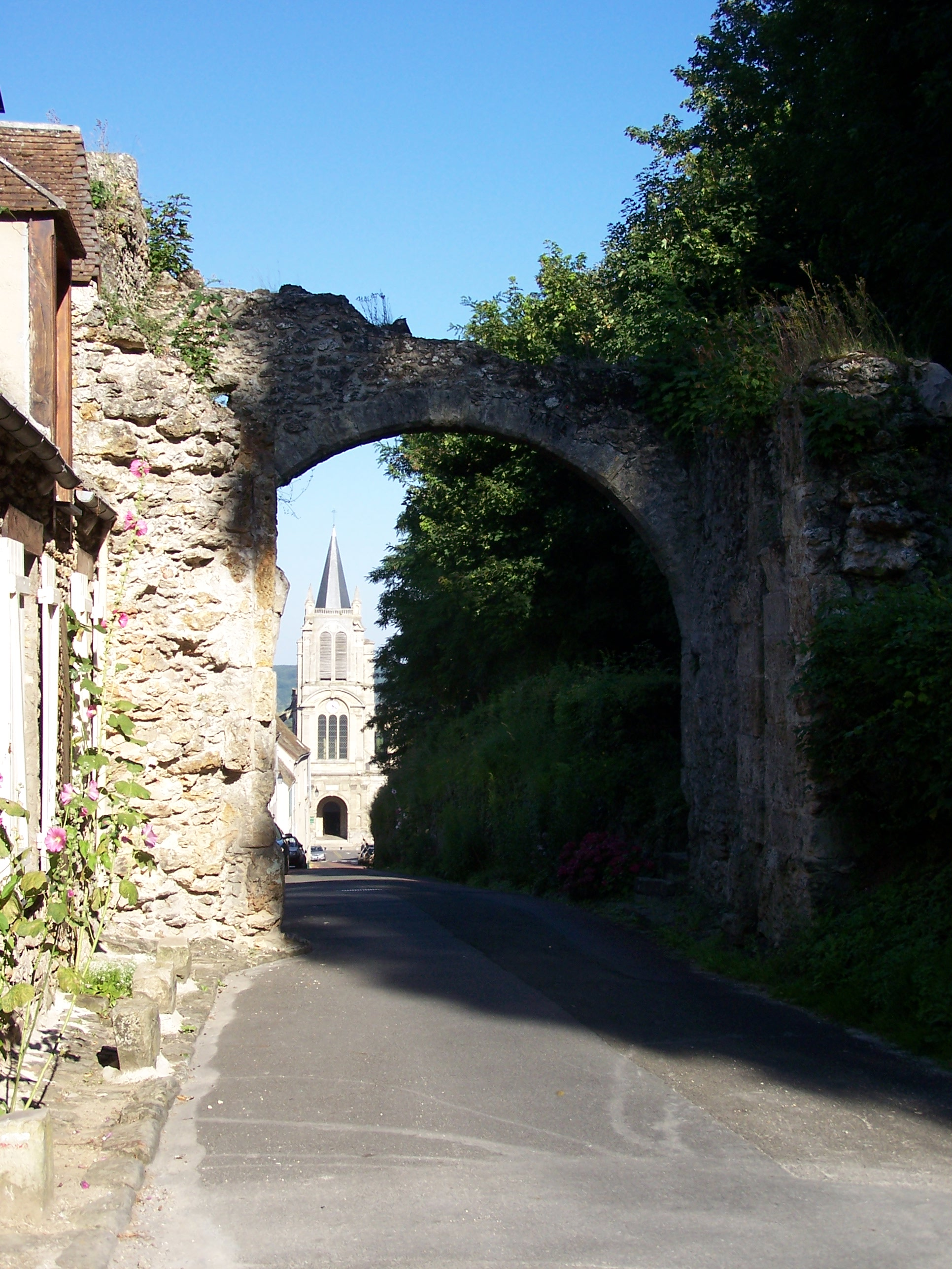 Street St Laurent and signt of the church in Montfort-l'Amaury (Yvelines, France)